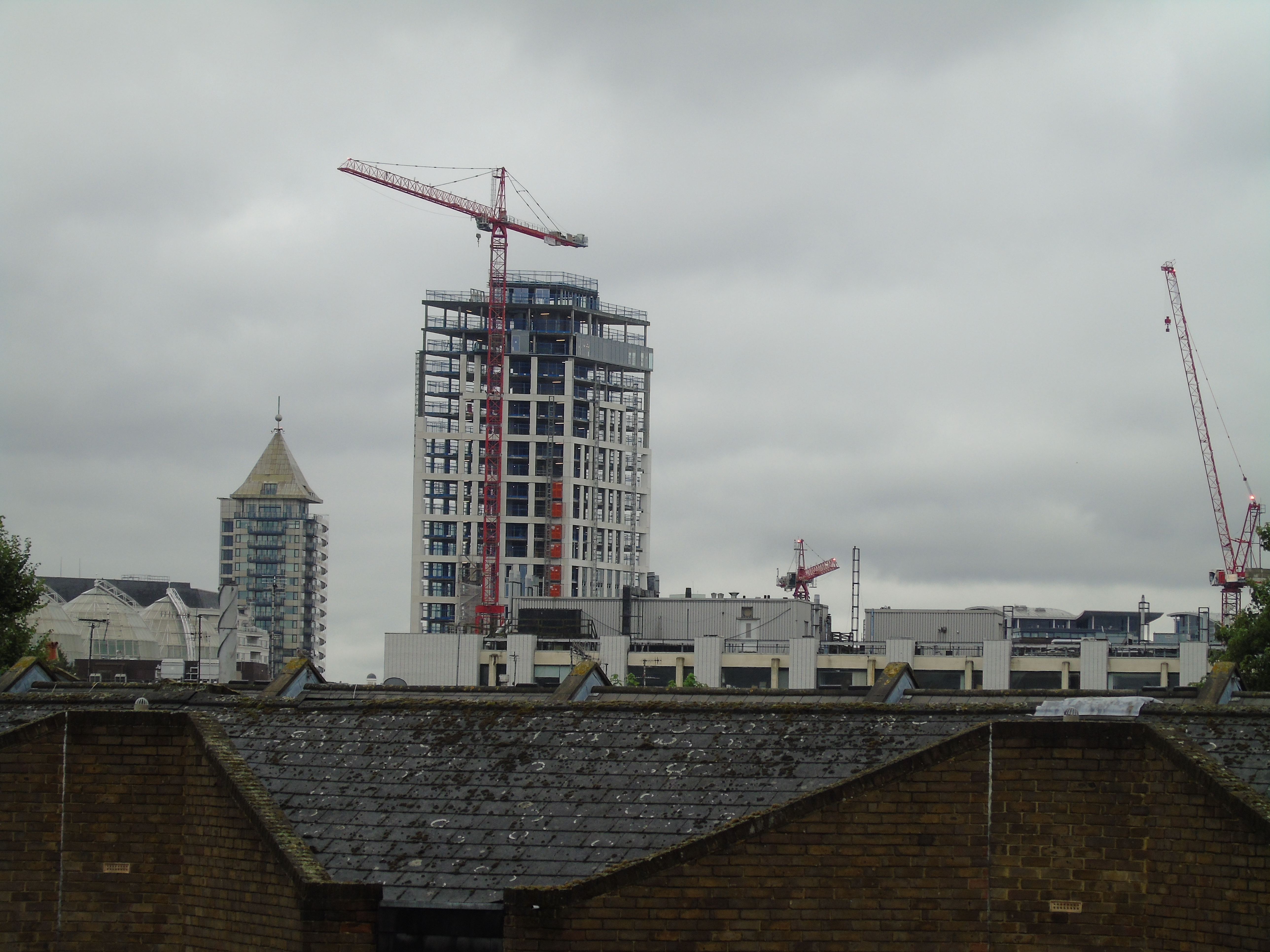 New High Rise living apartment's development West London. Imperial Warf Fulham, Walham/Sands End